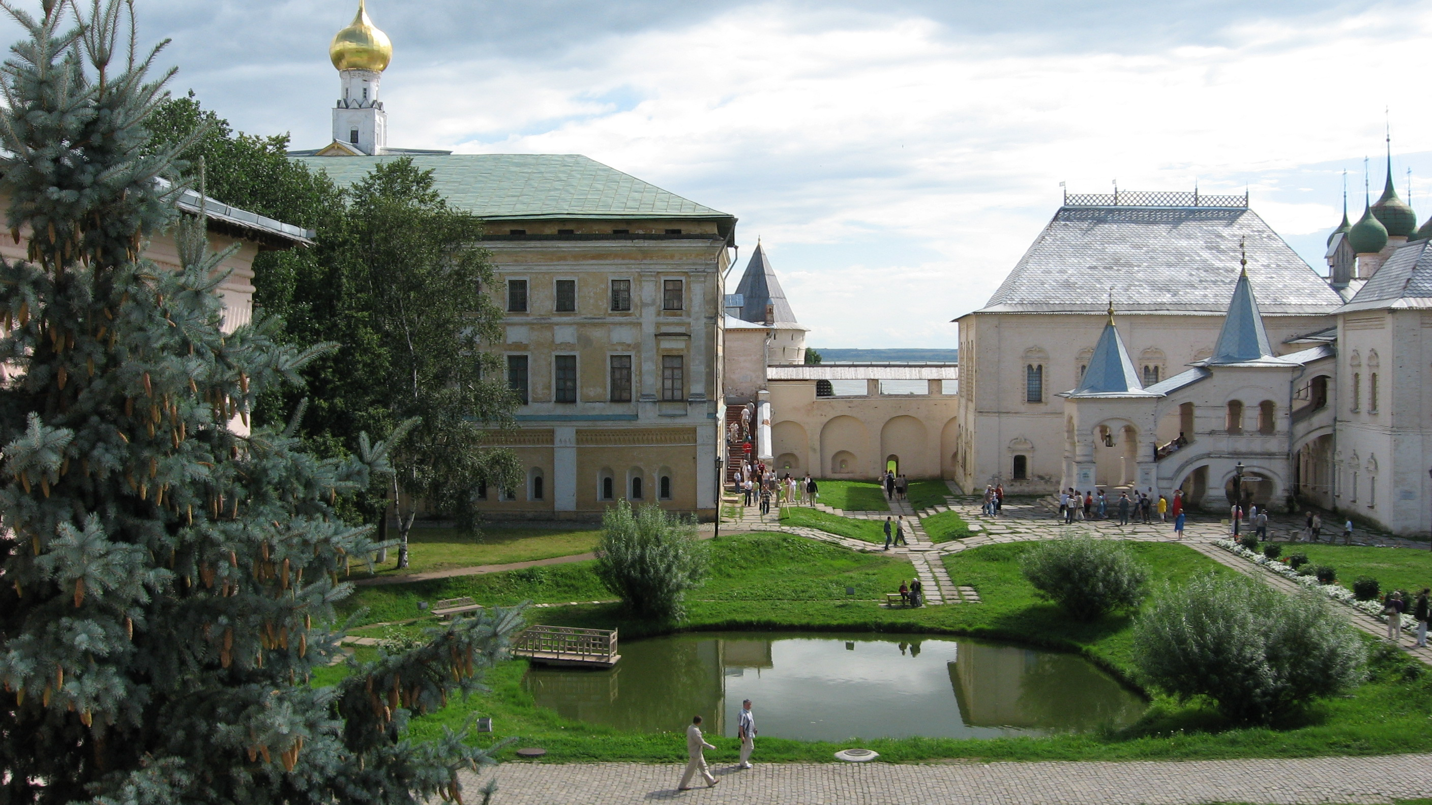 View of the courtyard in the Rostov kremlin